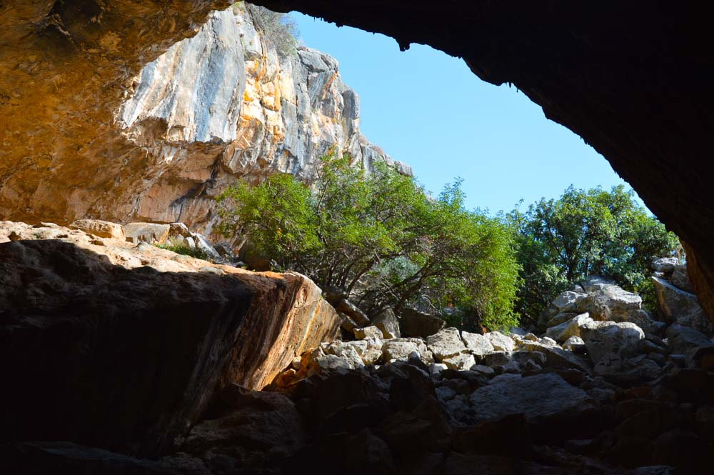 Cave Frahthi - Argolida Greece